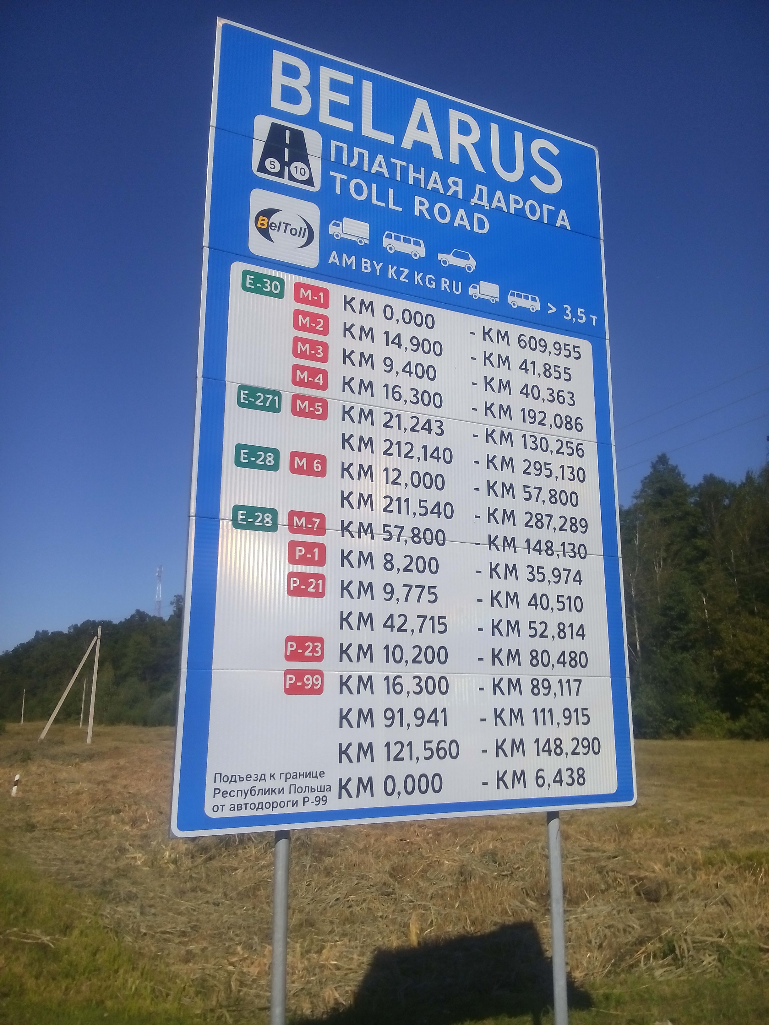 Road sign in v. Novaja Huta, Homieĺ District, Homel Region, Belarus This photo/video of Ukraine anb Belarus was taken during Wikiexpedition Ukraine-Belarus - find the difference supported by Wikimedia Ukraine.You can see all photographs in category Category:Wikiexpedition Ukraine-Belarus - find the difference. English | українська | +/−